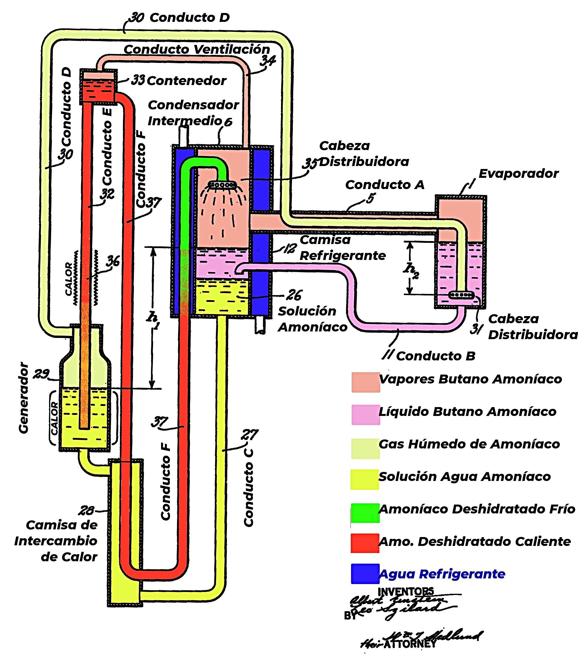 Uploaded and translated into Spanish by Alberto A. Schiano